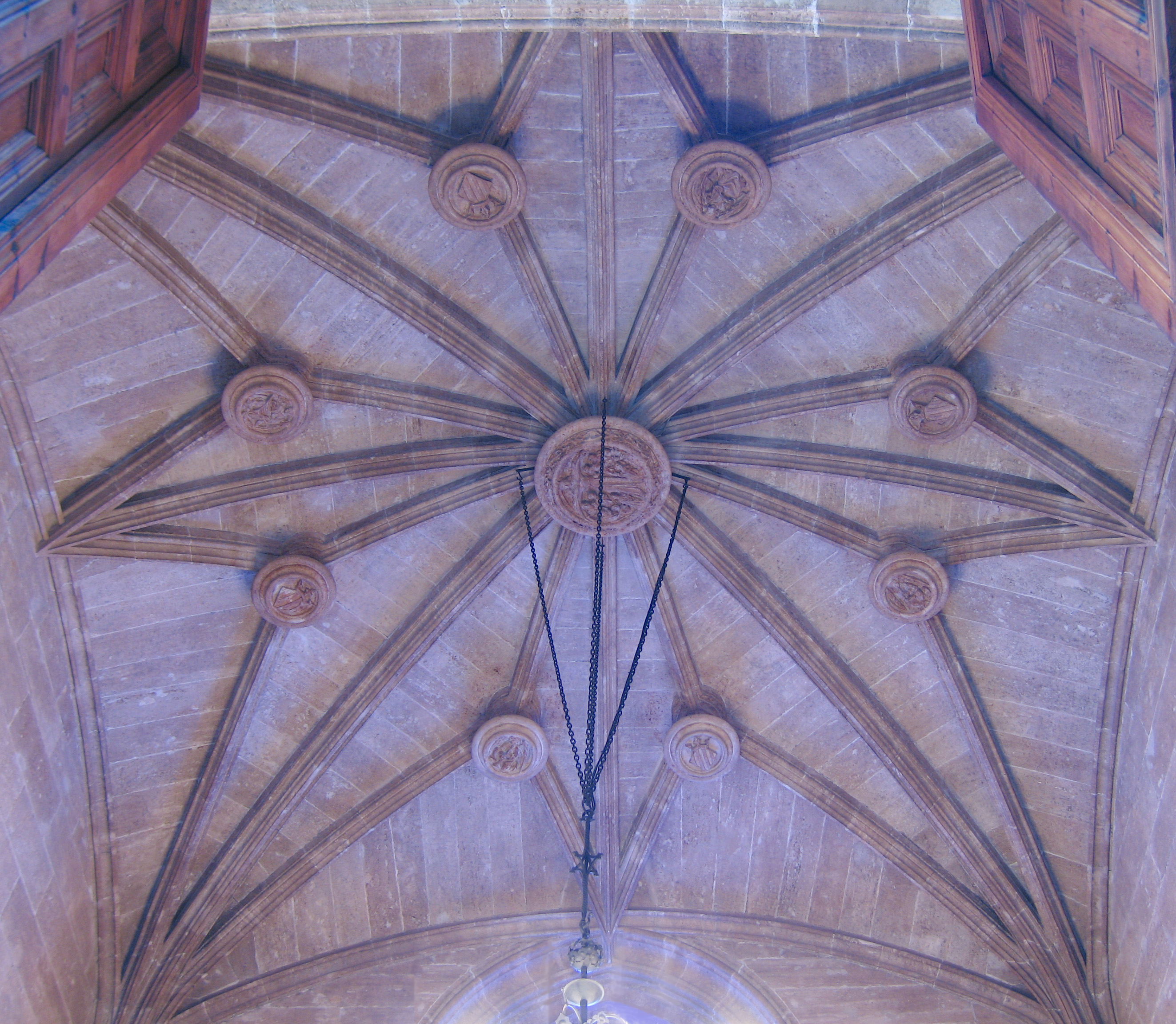 Capella de la Llotja de València